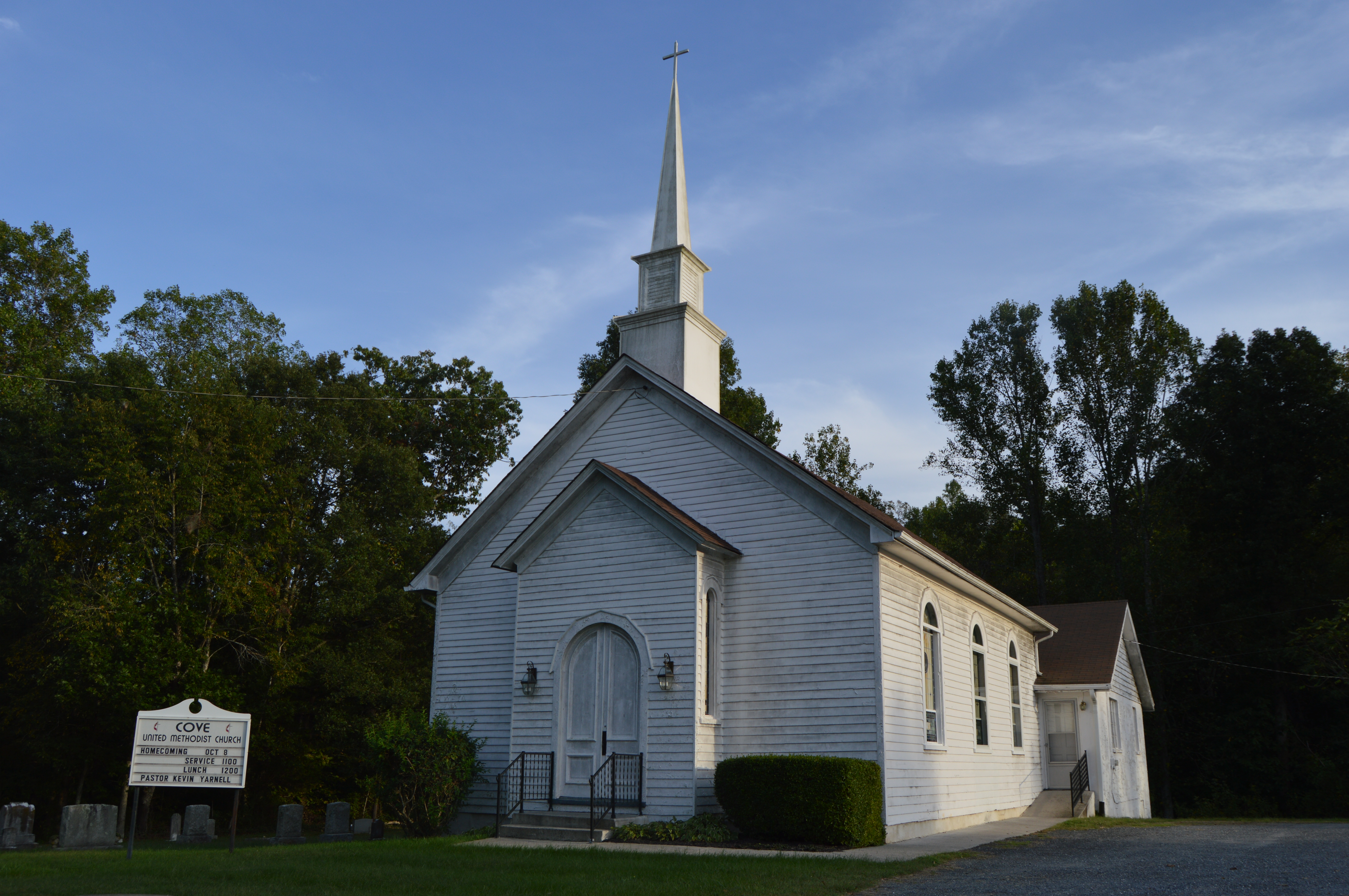 Front and western side of Cove United Methodist Church, located on Walker Road at Coleman Falls in Bedford County, Virginia, United States.